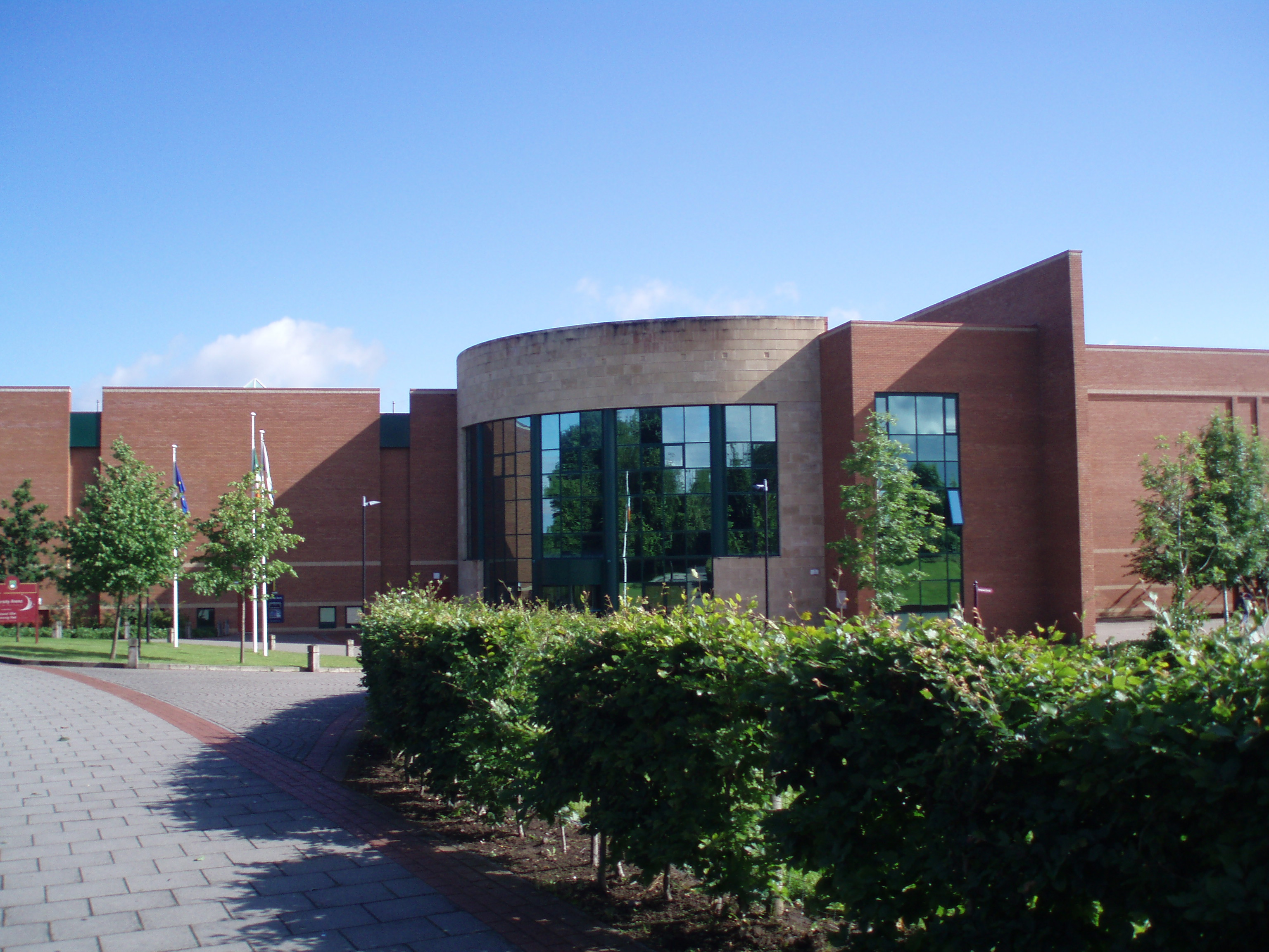 Sports Centre and Olympic Pool at the University of Limerick